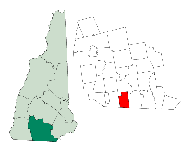 Map of a municipality in Hillsborough County, New Hampshire